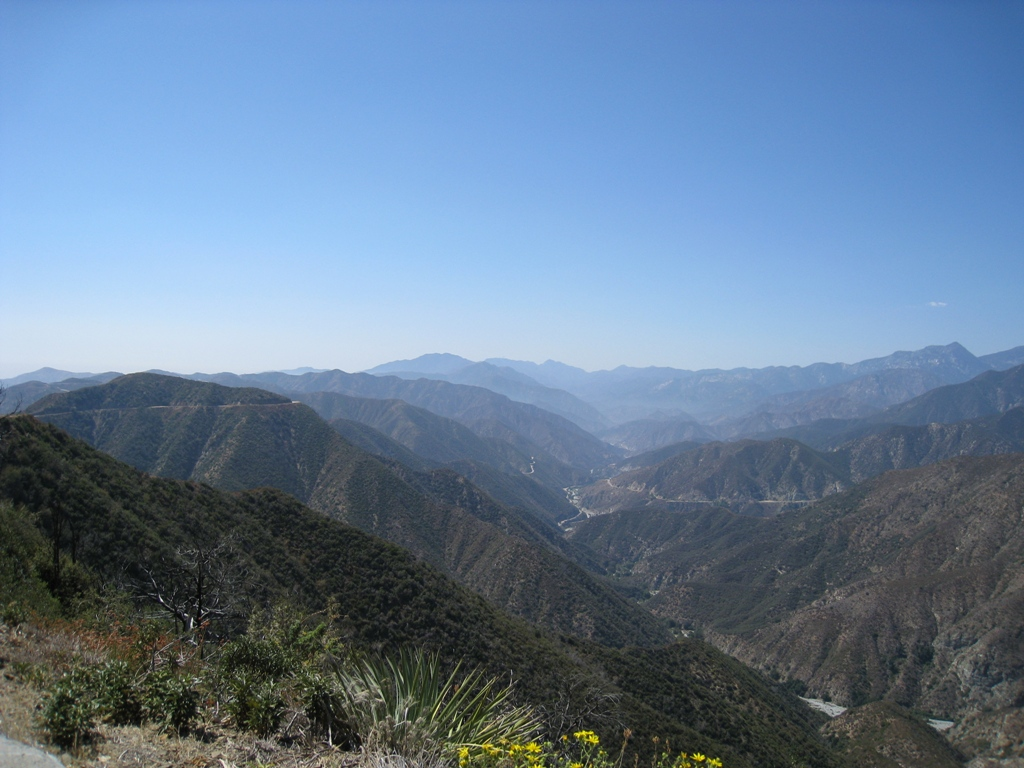 San Gabriel Mountains and the Angeles National Forest — Southern California. Looking west on road between Mount Baldy Road and CA Route 39. View of California chaparral and woodlands ecoregion habitat, with typical flora of the Transverse Ranges.